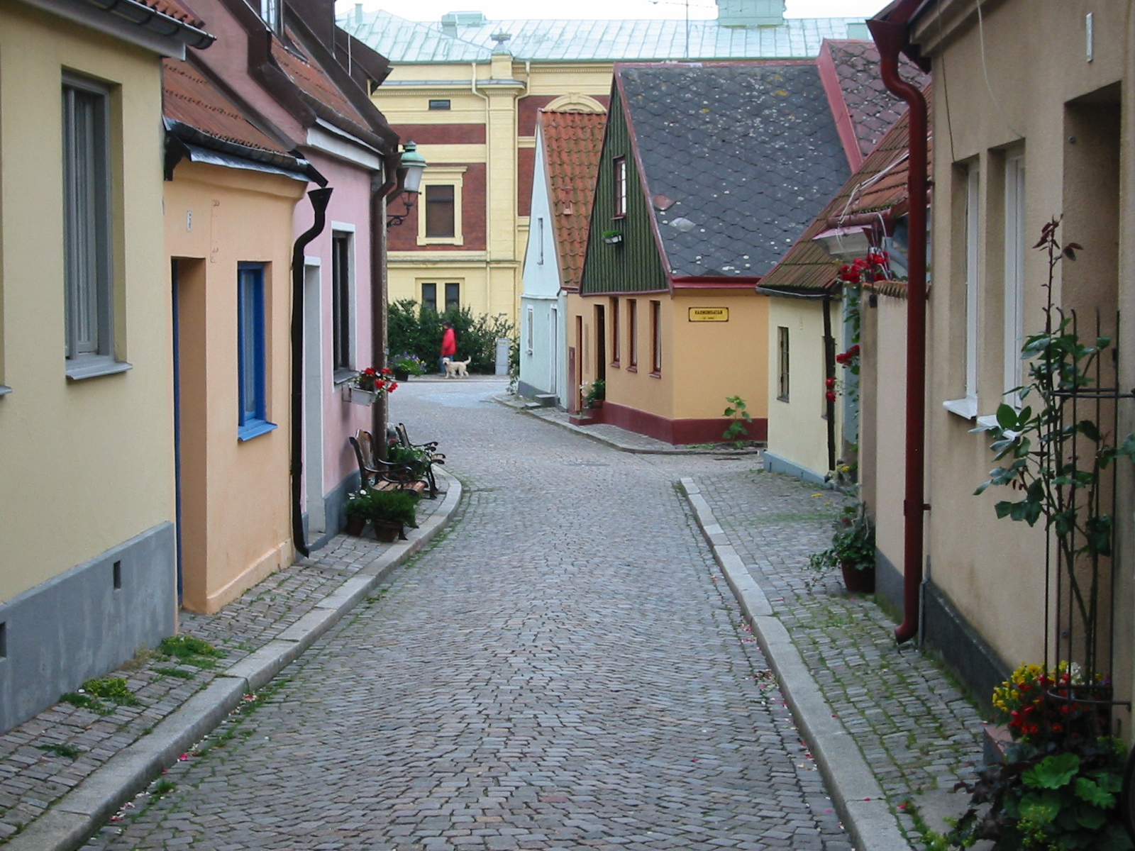 Street in the city of Ystad in Sweden